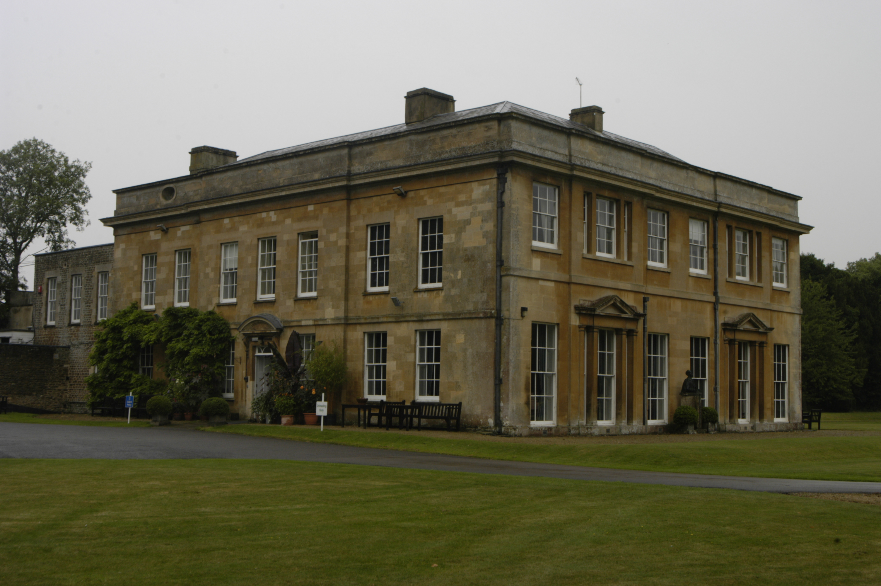 Photo (by me, R. de Salis, Rodolph (talk) 00:08, 17 August 2015 (UTC)) of Marcham Park, formerly in Berkshire, from the north east, August 2015.